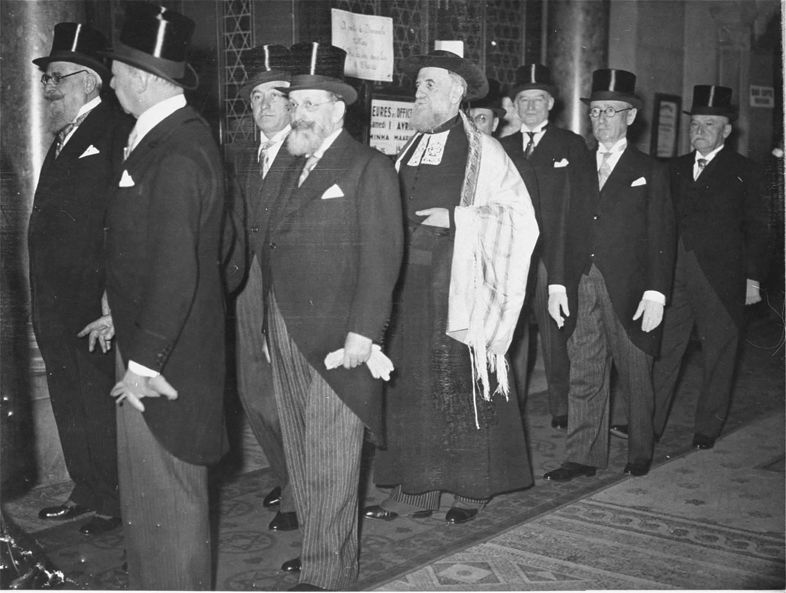 Rabbi Isaie Schwartz is escorted by leaders of the Jewish community to the synagogue where he will be installed as the new Chief Rabbi of France